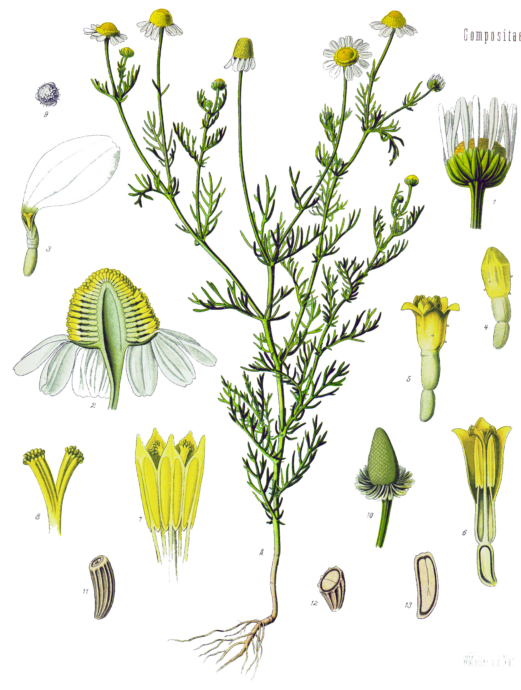 Illustration of Matricaria recutita